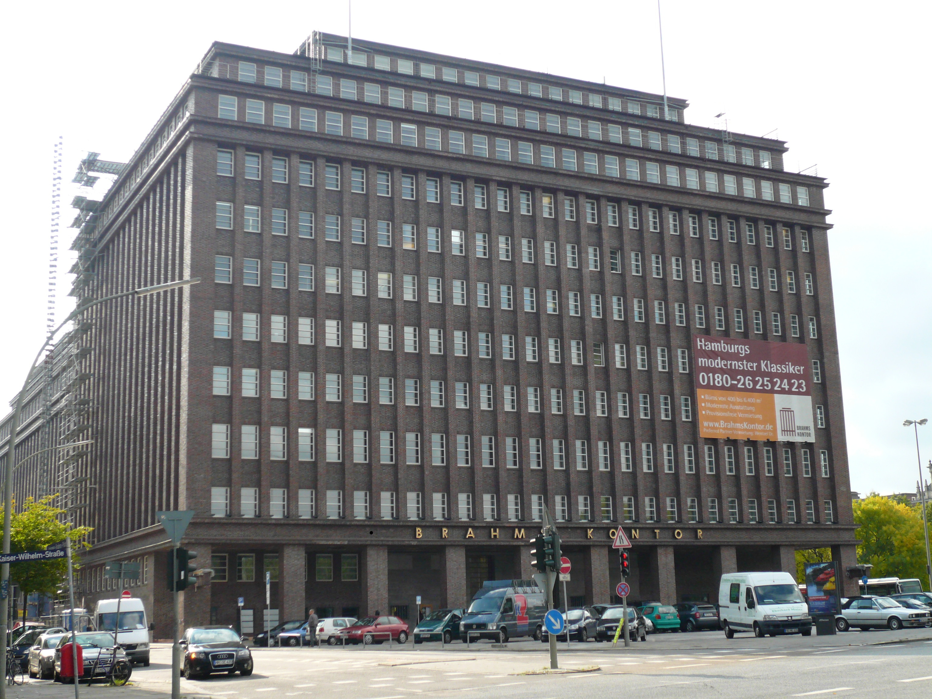 Brahms Kontor, Hamburg after renovation